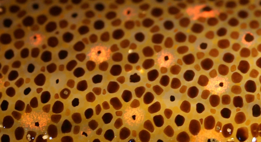 Chromatophores. "Just about everything squids do is interesting, but the way they can change their pattern of pigmentation with respect to the substratum is particularly striking. When on a light background, a squid tends to contract its pigment-containing cells so that the pigment becomes concentrated in tiny, widely spaced flecks; the body as a whole thus becomes lighter. On a dark background, the pigment cells expand, diffusing the pigment over a larger area and making the body darker." Editor's note: Also, the magic pink bits. (From Seashore Life of the Northern Pacific Coast, by Eugene N. Kozloff)